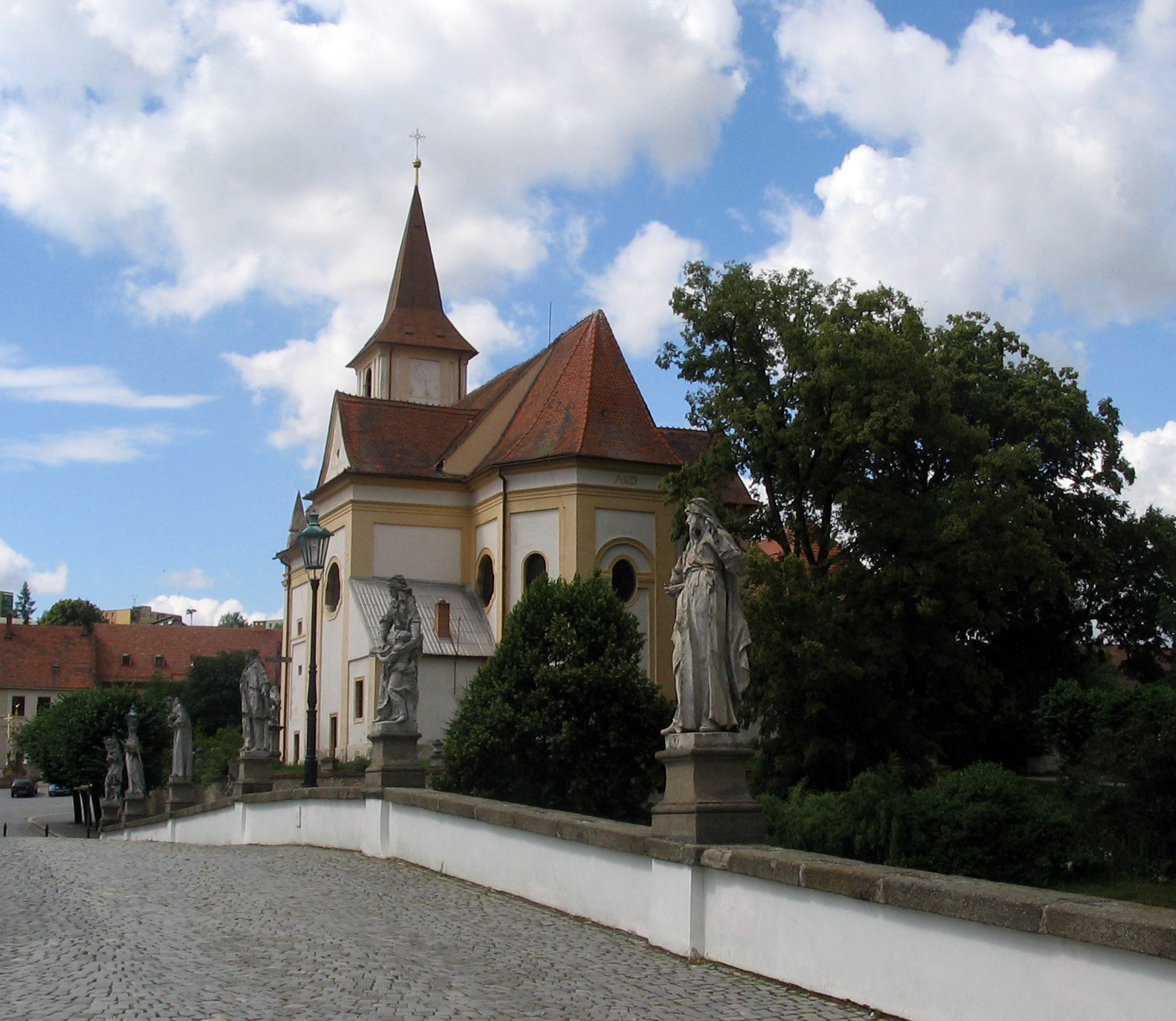 Church of Saint John the Baptist in Náměšť nad Oslavou, Třebíč District, Czech Republic. A view from the bridge.